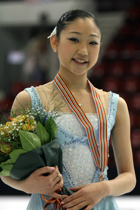 Mirai Nagasu during the medals ceremony at the 2008 World Junior Figure Skating Championships. She won the bronze medal at this competition.